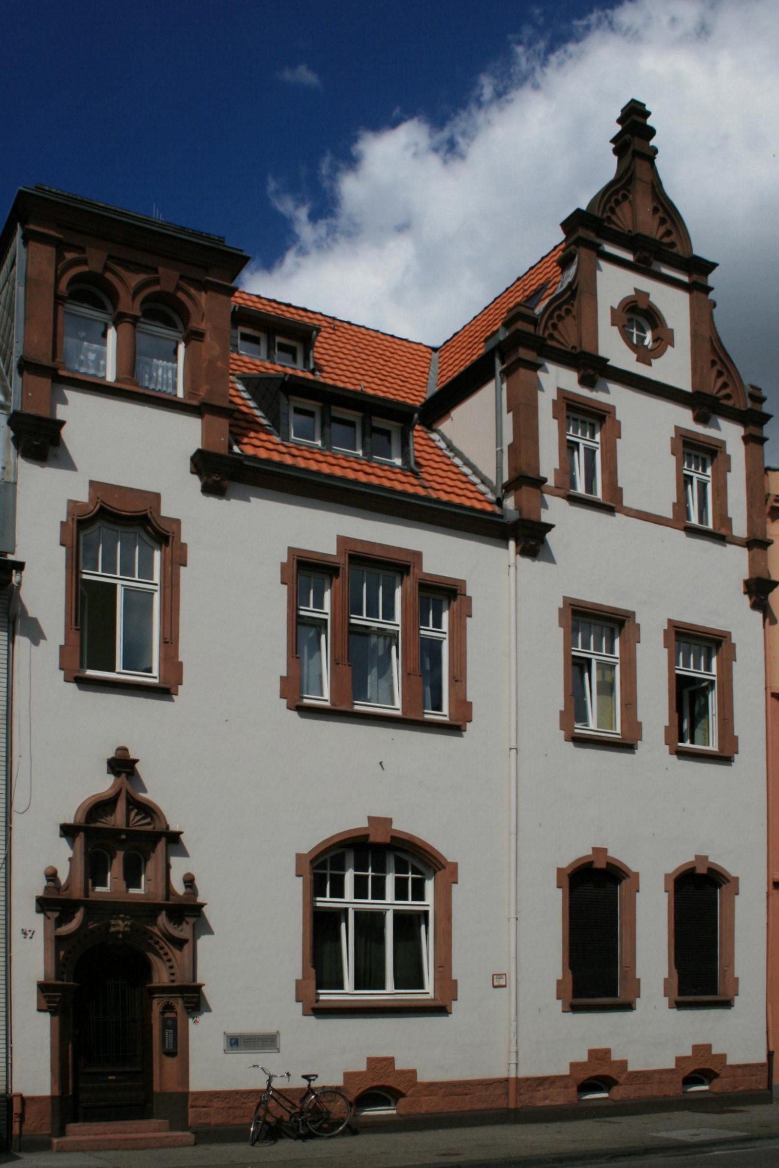 Cultural heritage monument No. D 010 in Mönchengladbach